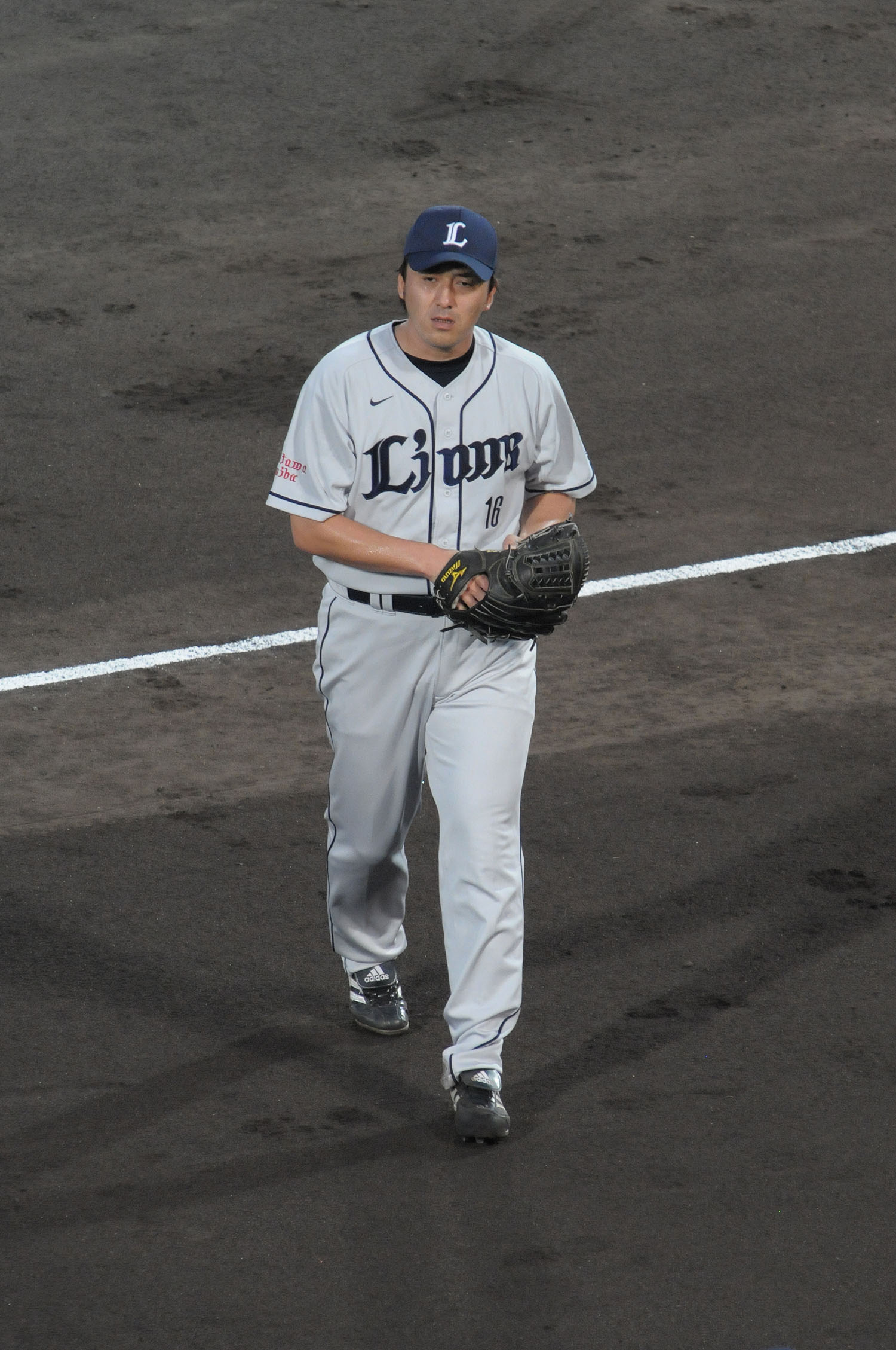 Kazuhisa Ishii, pitcher of the Saitama Seibu Lions, at Akita Prefectural Baseball Stadium.